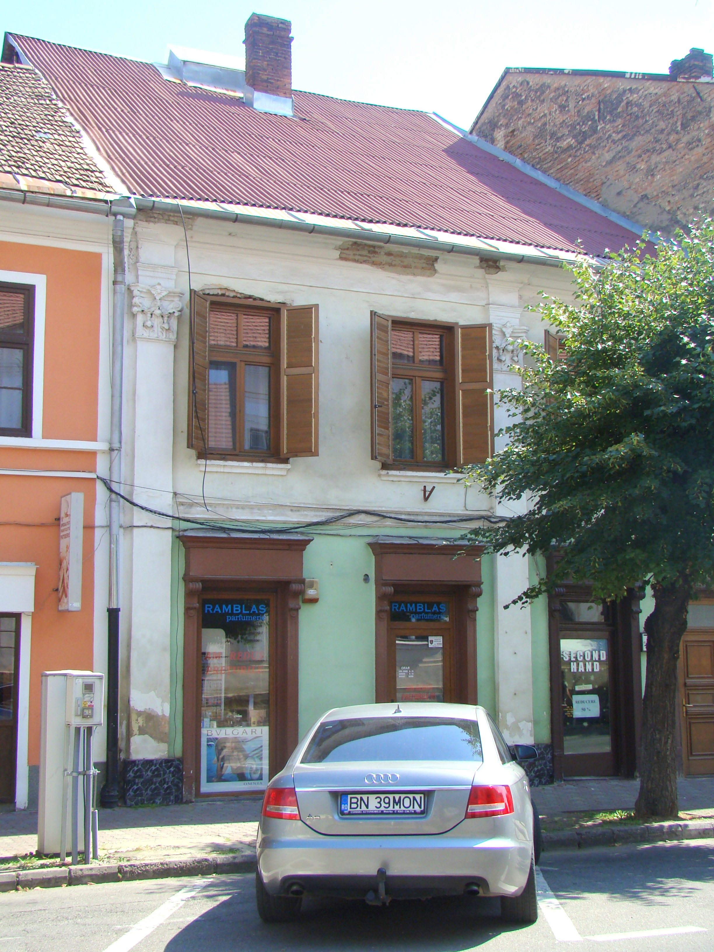 House, historic monument, in Bistrița, Gheorghe Șincai street 31